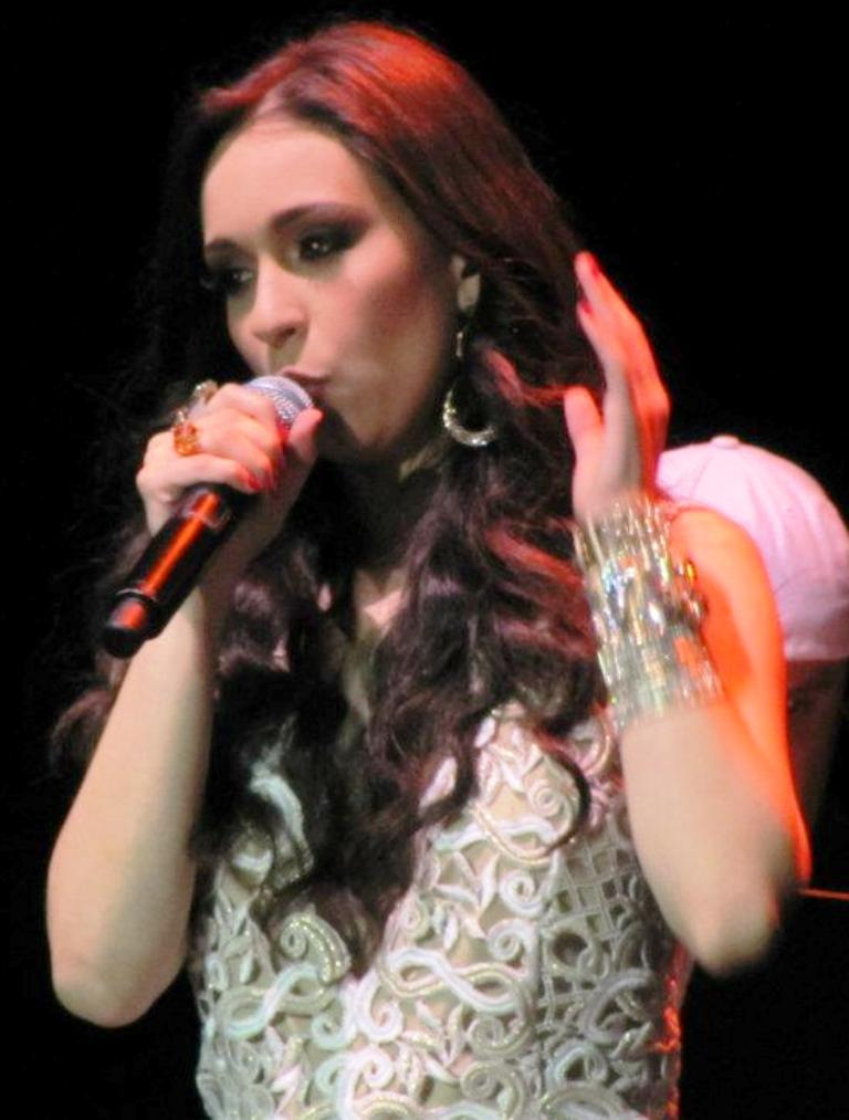 The singer Anaís Vivas being opening act in concert Laura Pausini (Caracas, Venezuela)